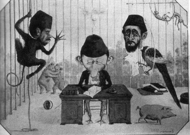 A_middleast_mosaic_-1999_-_The_original_caricature_is_dated_1885._counsultative_menagerie